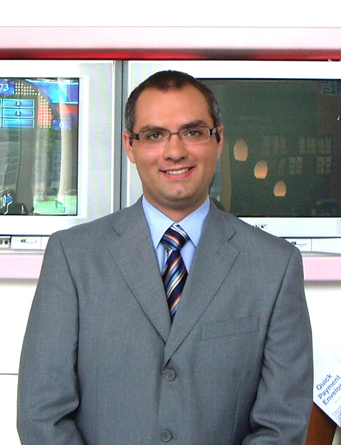 Anti-trafficking activist Benjamin Perrin